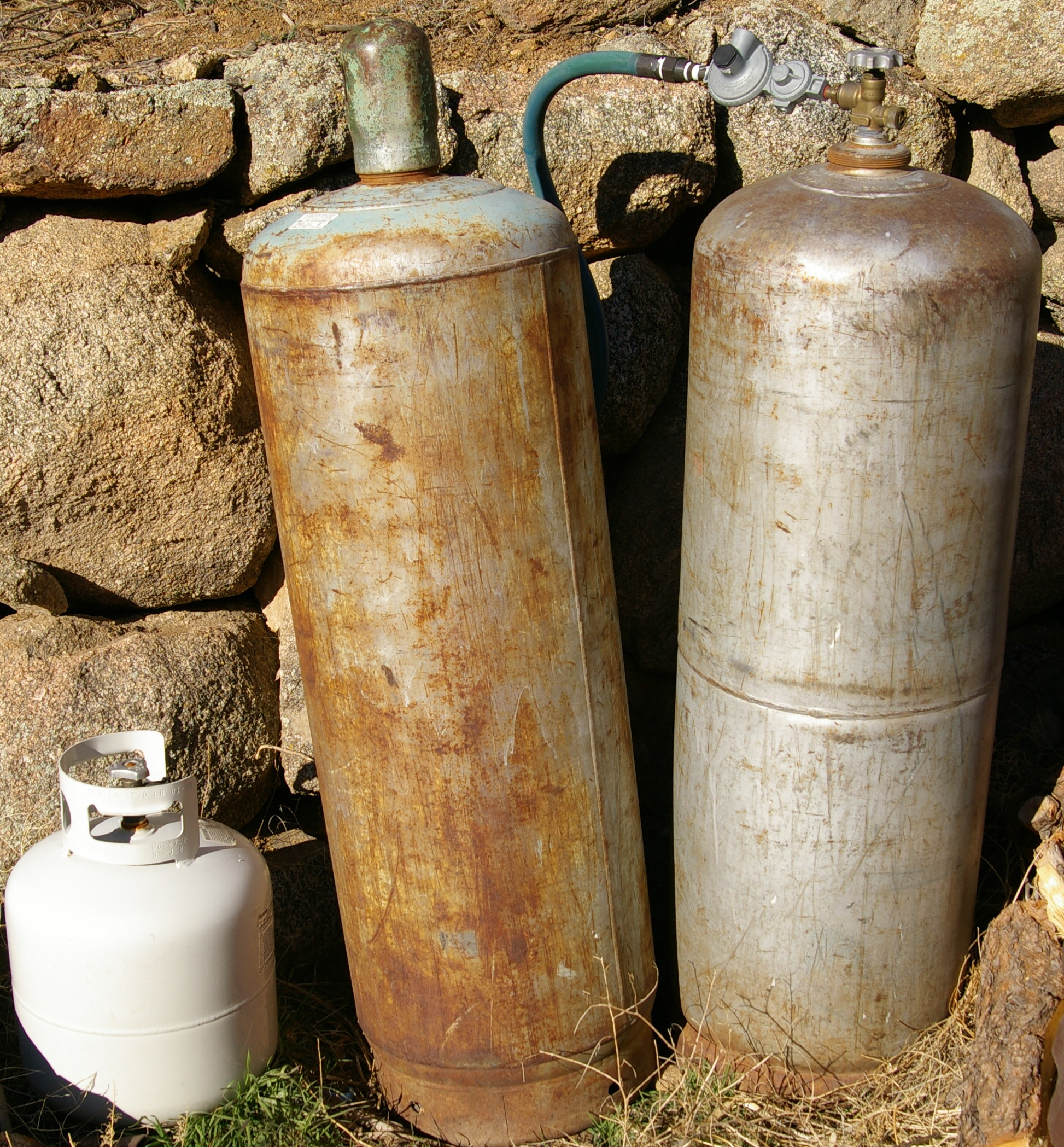 2 larger propane tanks, one with a regulator and hose connected. The smaller tank is a 20lb size.